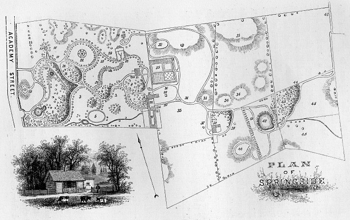 The original landscape plans byfor Springside — the Matthew Vassar estate in Poughkeepsie, New York.